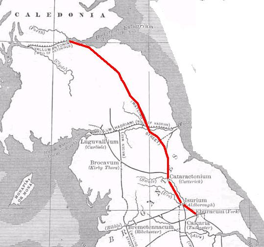 From :Image:Romanbritain.jpg